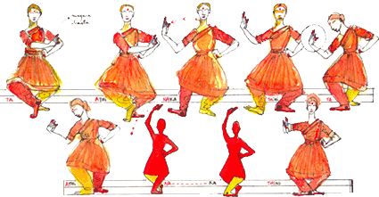 image showing the moviments of odissi